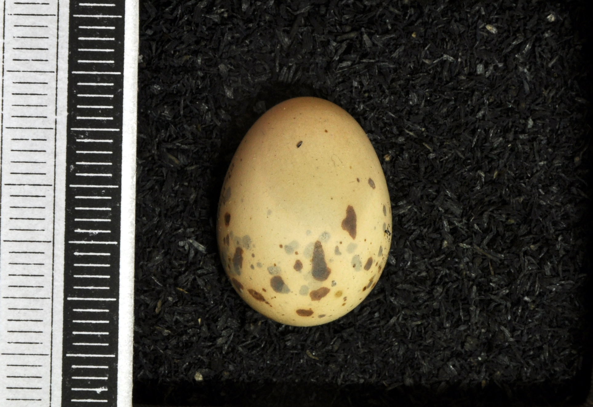 Masked shrike Lanius nubicus , egg, Coll. Museum Wiesbaden